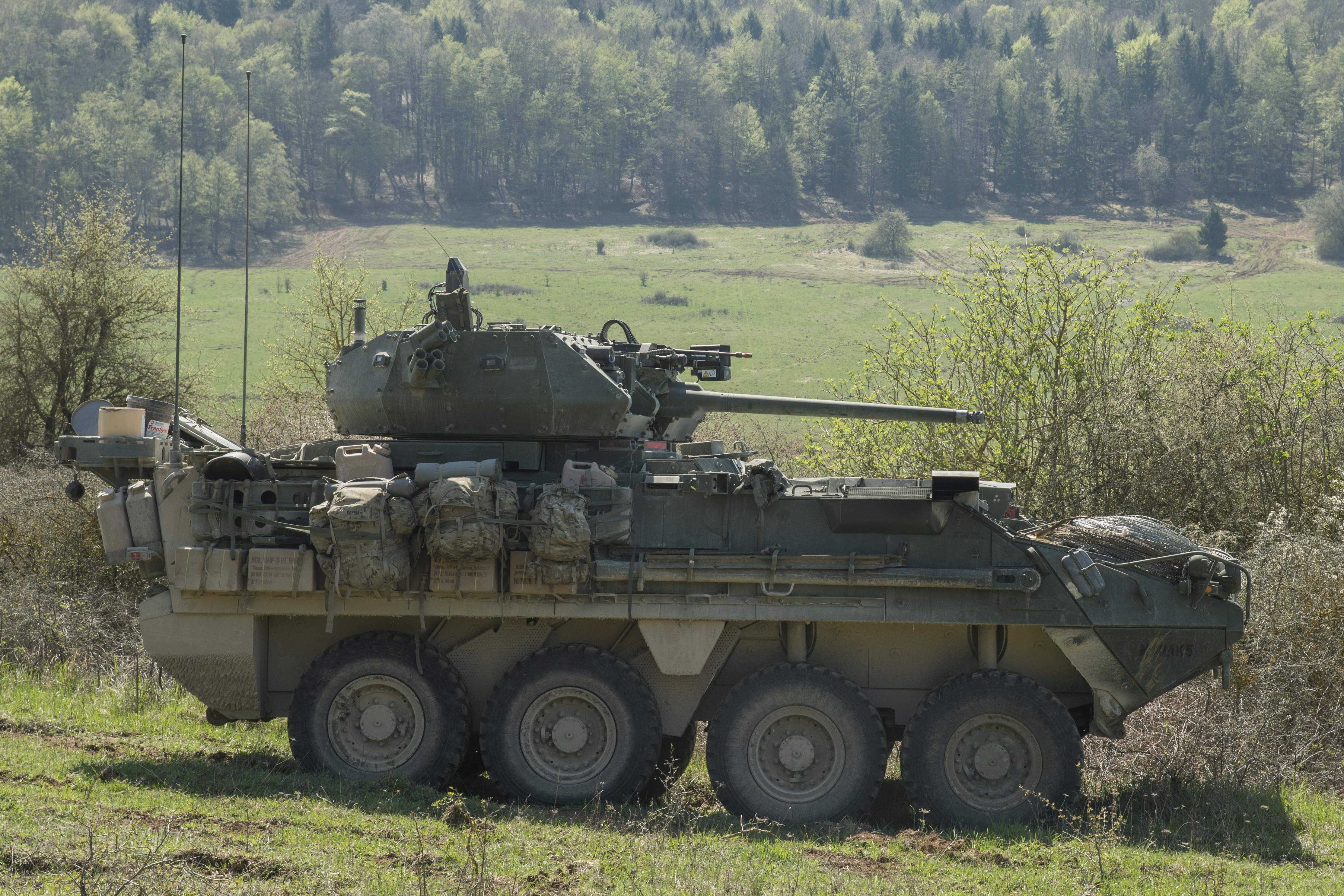 An Infantry Carrier Vehicle Dragoon (ICVD) from Ghost Troop, 2nd Squadron, 2nd Cavalry Regiment, over watches the engagement area from its battle position during the ICVD/Common Remote Weapons Station mounting a Javelin missile (CROWS-J) Operational Test at the Joint Maneuver Readiness Center (JMRC), Hohenfels, Germany